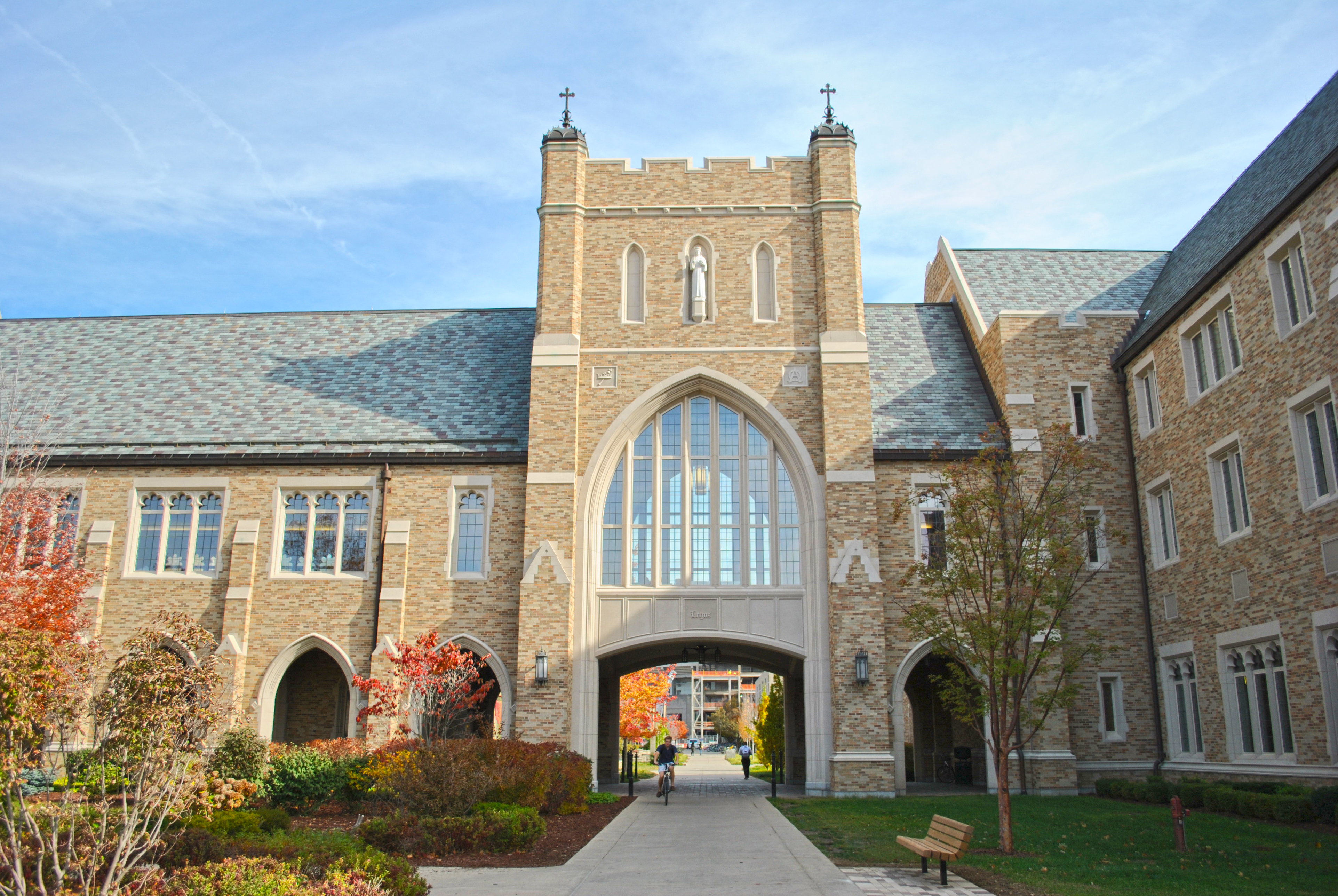 Law School Arch